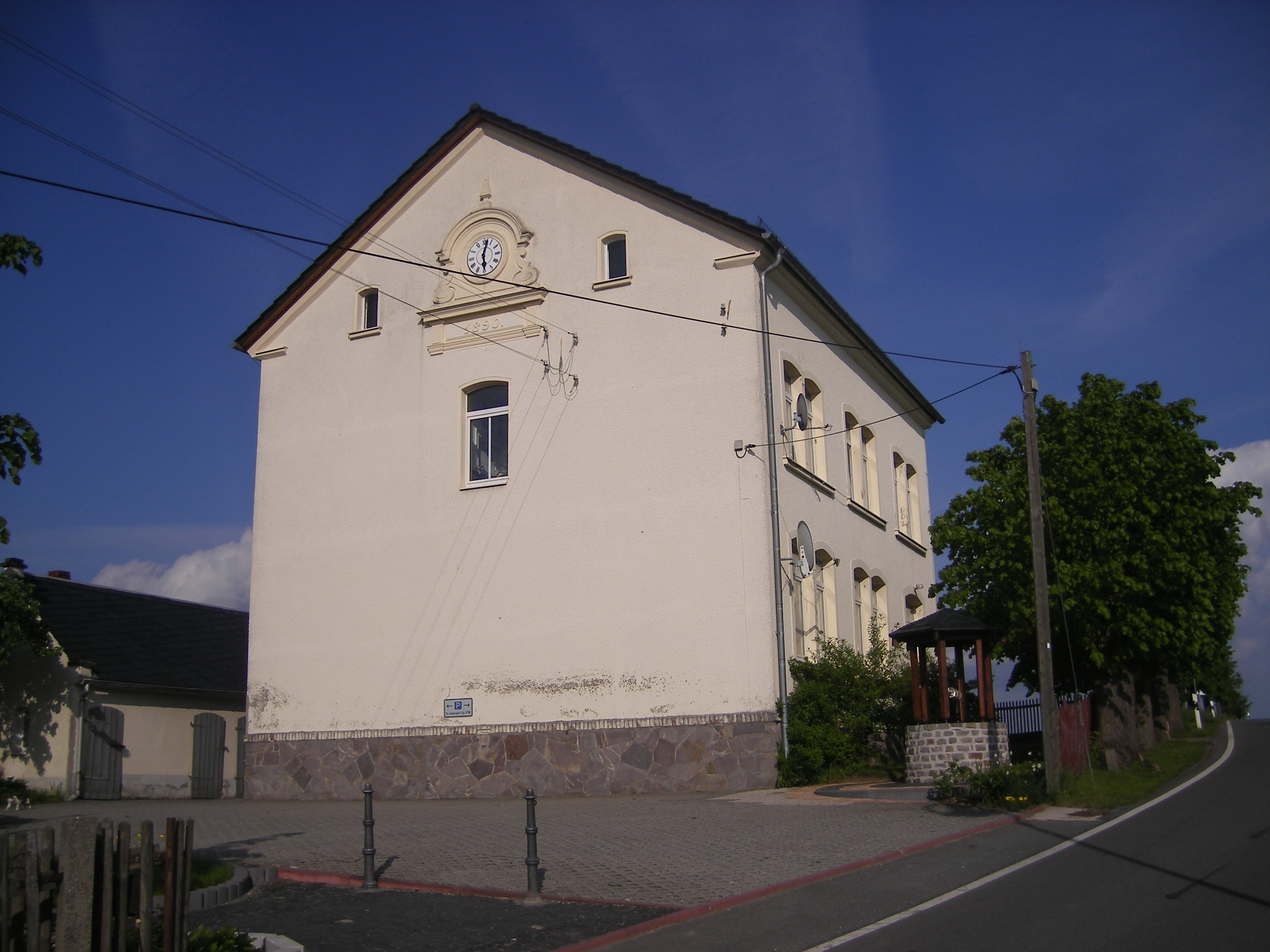 The municipal office in Heyersdorf, Thuringia, Germany.